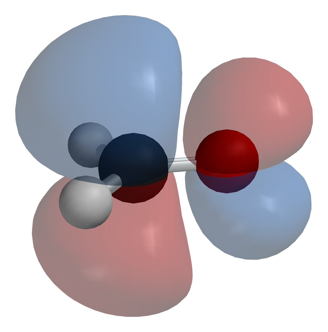 Ball-and-stick model of the formaldehyde molecule and its LUMO